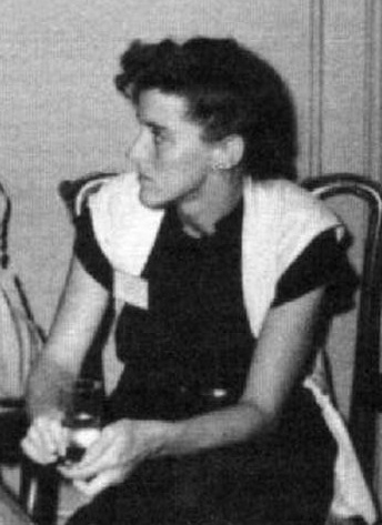 Katherine MacLean and Fritz Leiber at the 1952 World Science Fiction Convention